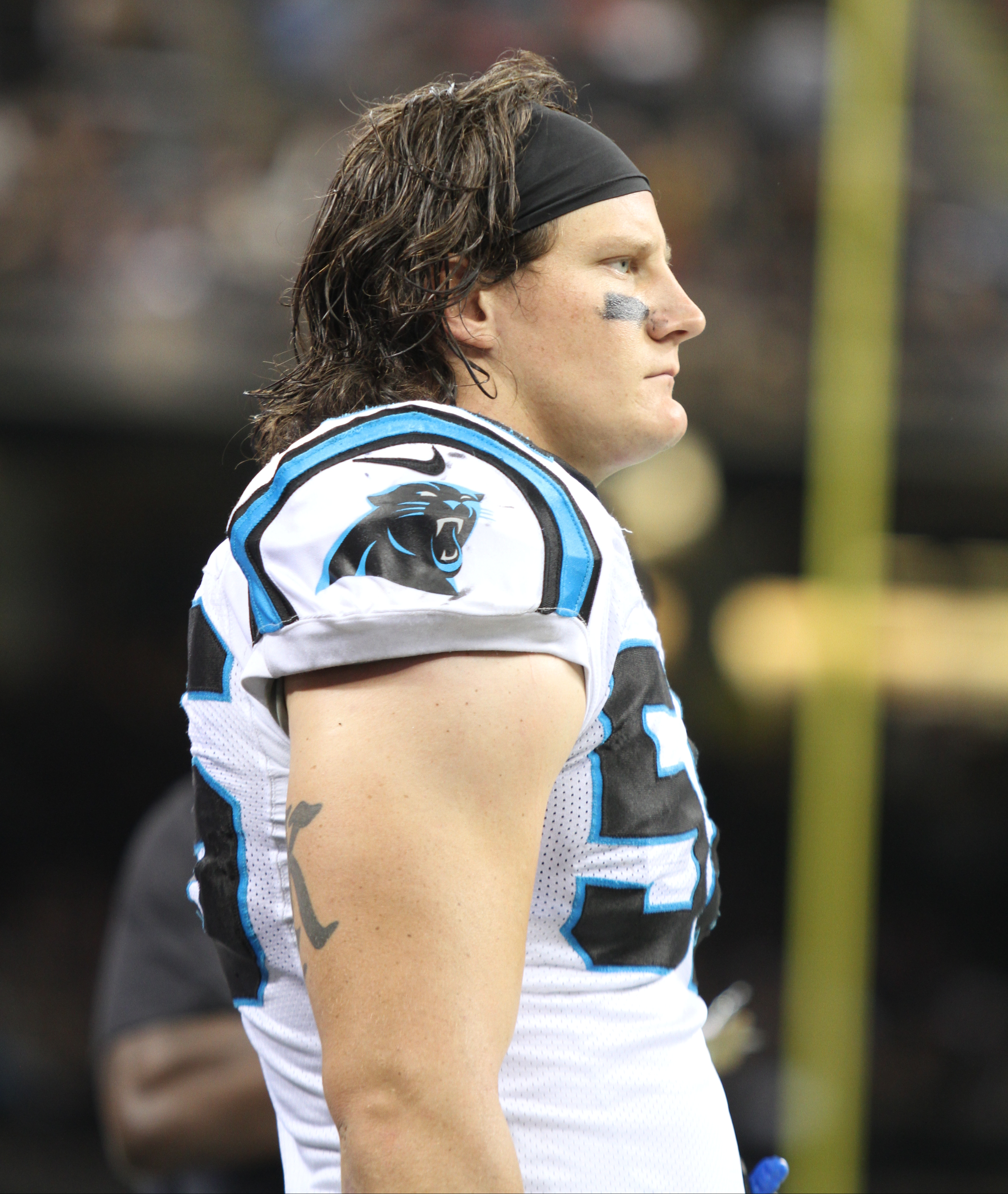 New Orleans Saints vs Carolina Panthers, December 6, 2015, Tammy Anthony Baker, Photographer